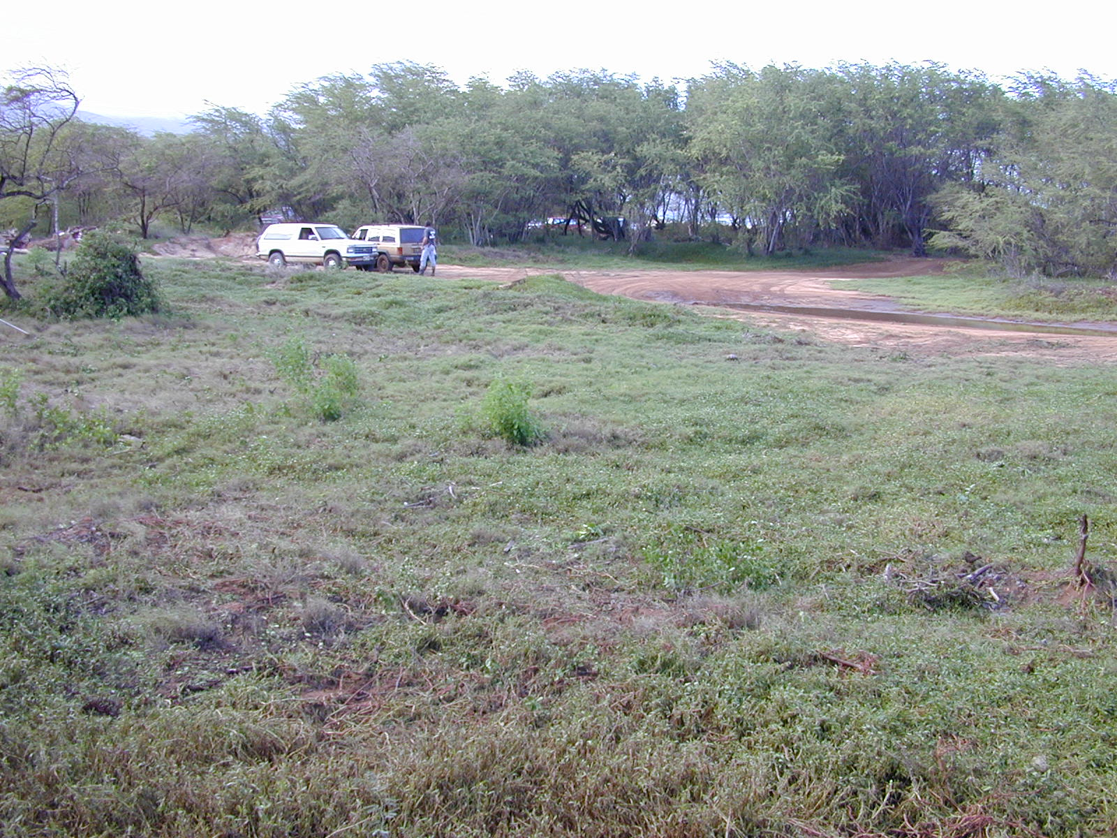 Cynodon dactylon (looking toward beach). Location: Maui, Kanaha Beach phase two east